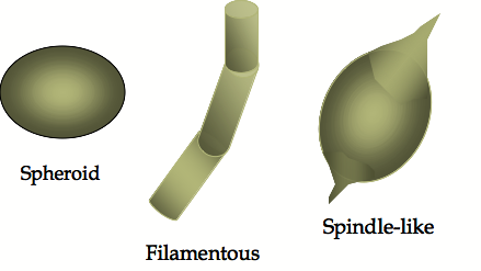 Three types of fossil microbes in the Archaean